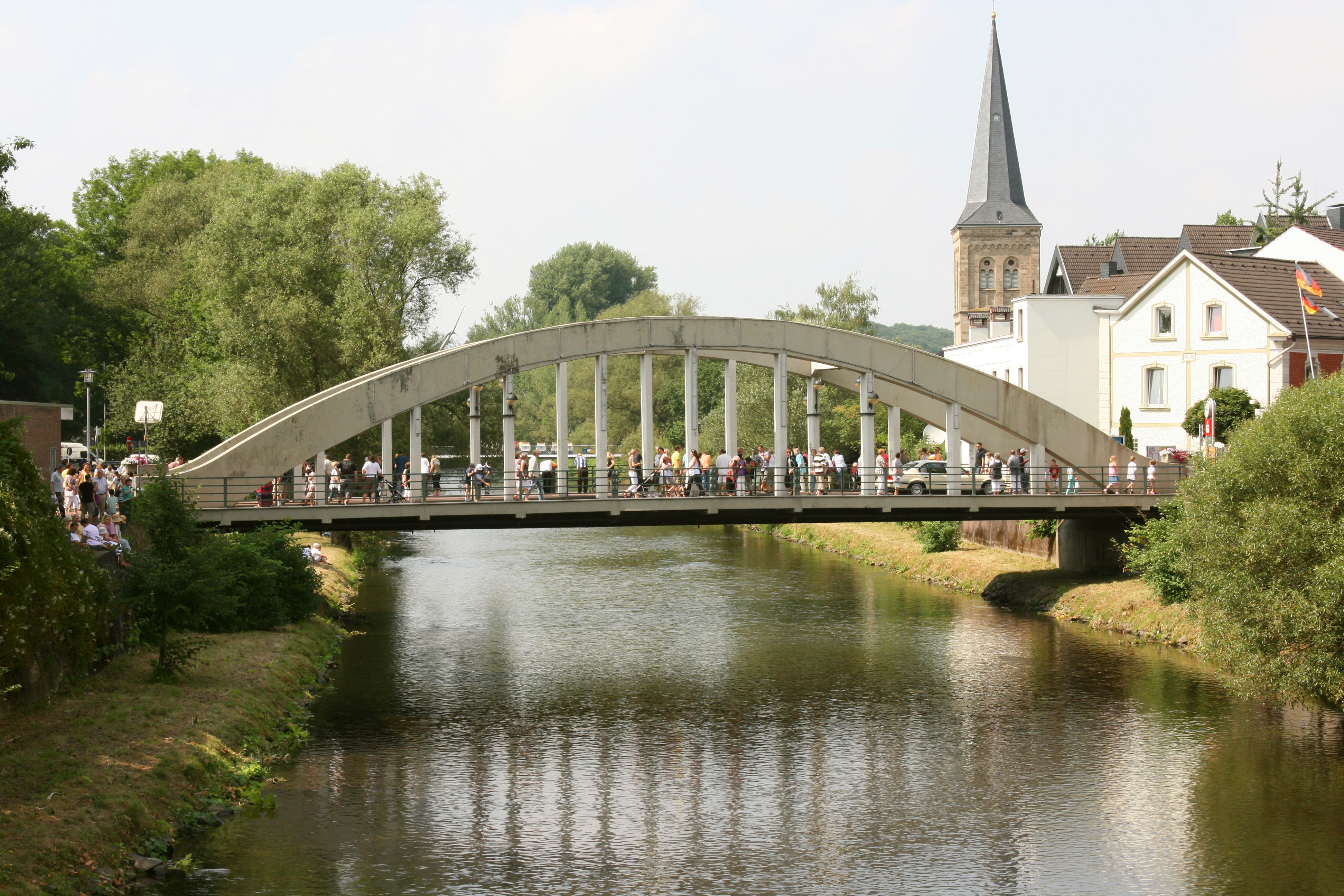 Rubber duck race on the Wupper river in Leichlingen